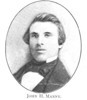 A photograph of American inventor and businessman John H. Manny.